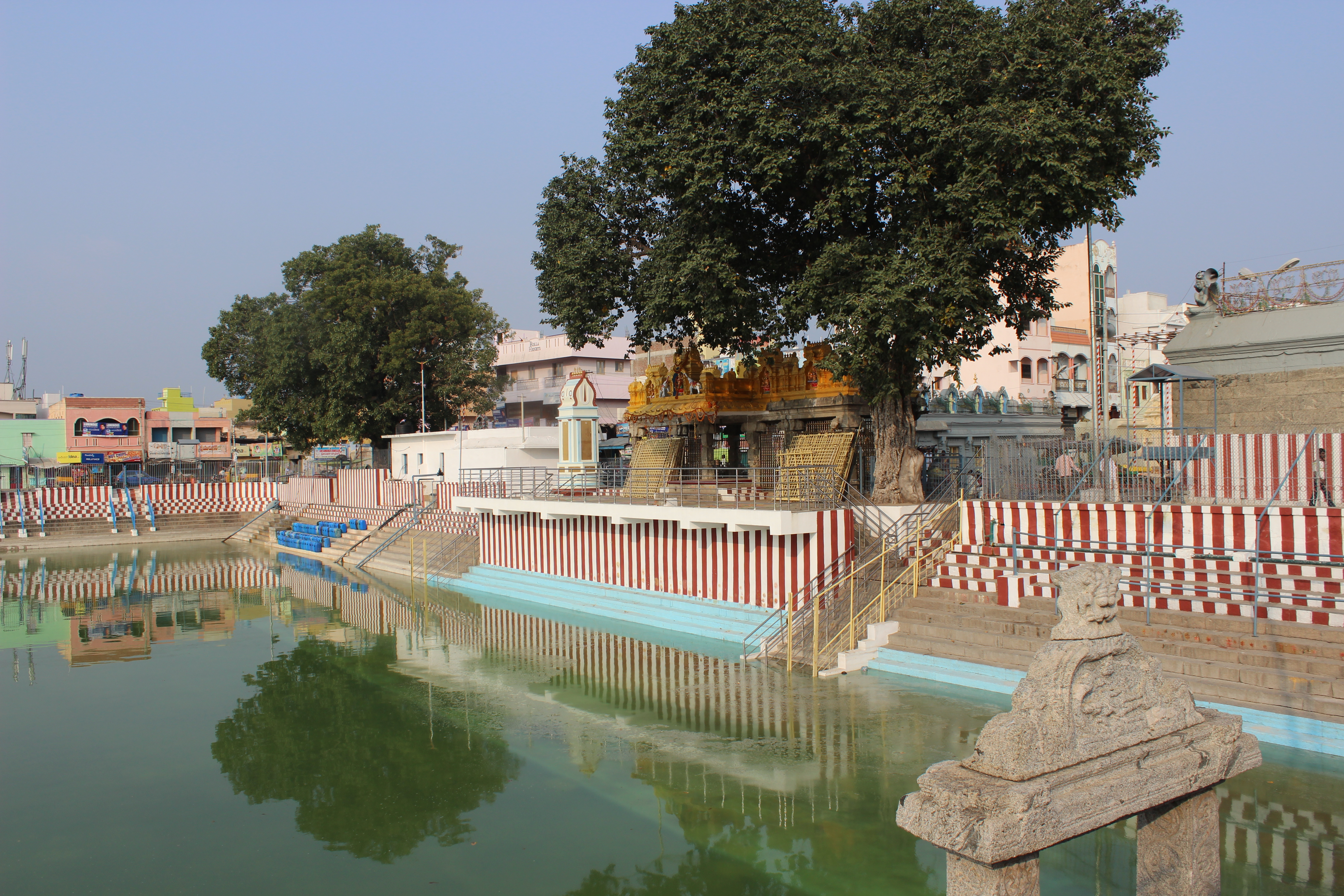 Thiruchanur